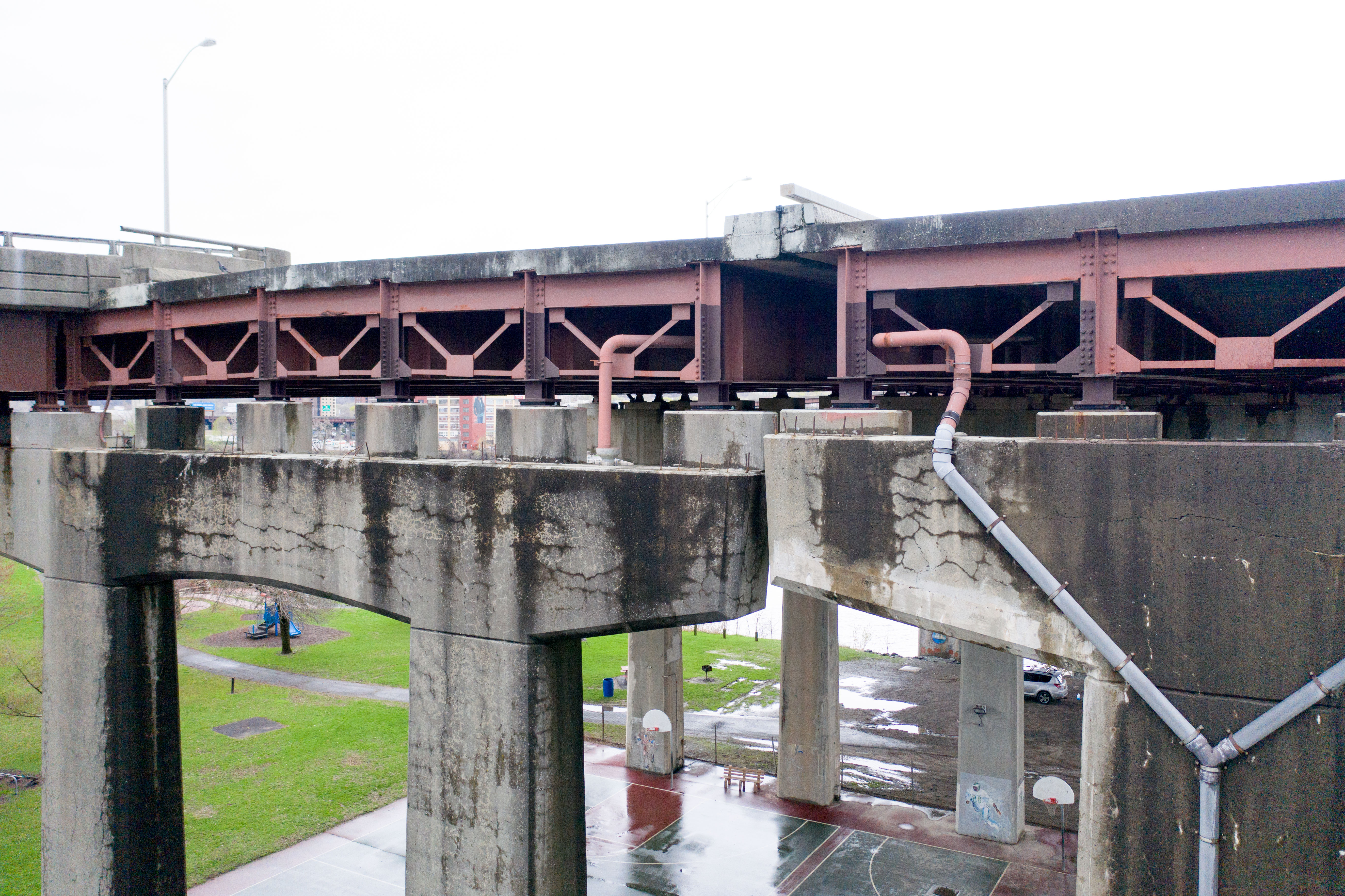 This provides a more complete view of the structure of the unfinished end of the Dunn Memorial Bridge with more context as to the supports of the bridge.